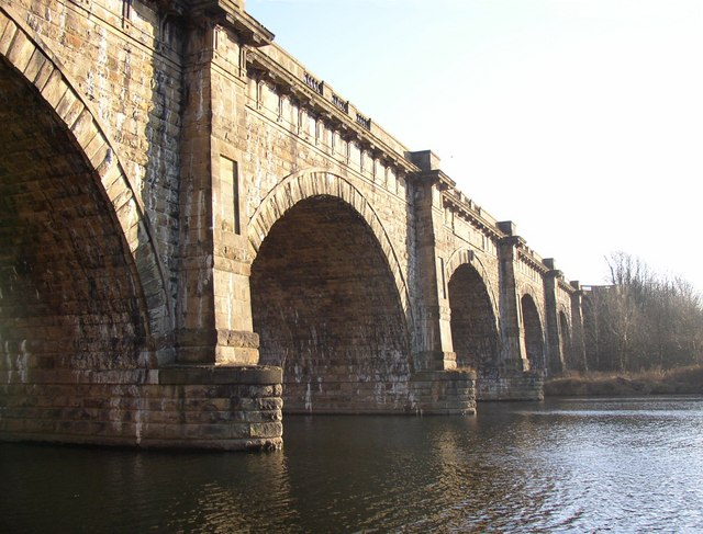 The Lune Aqueduct, near Halton, Lancashire, England